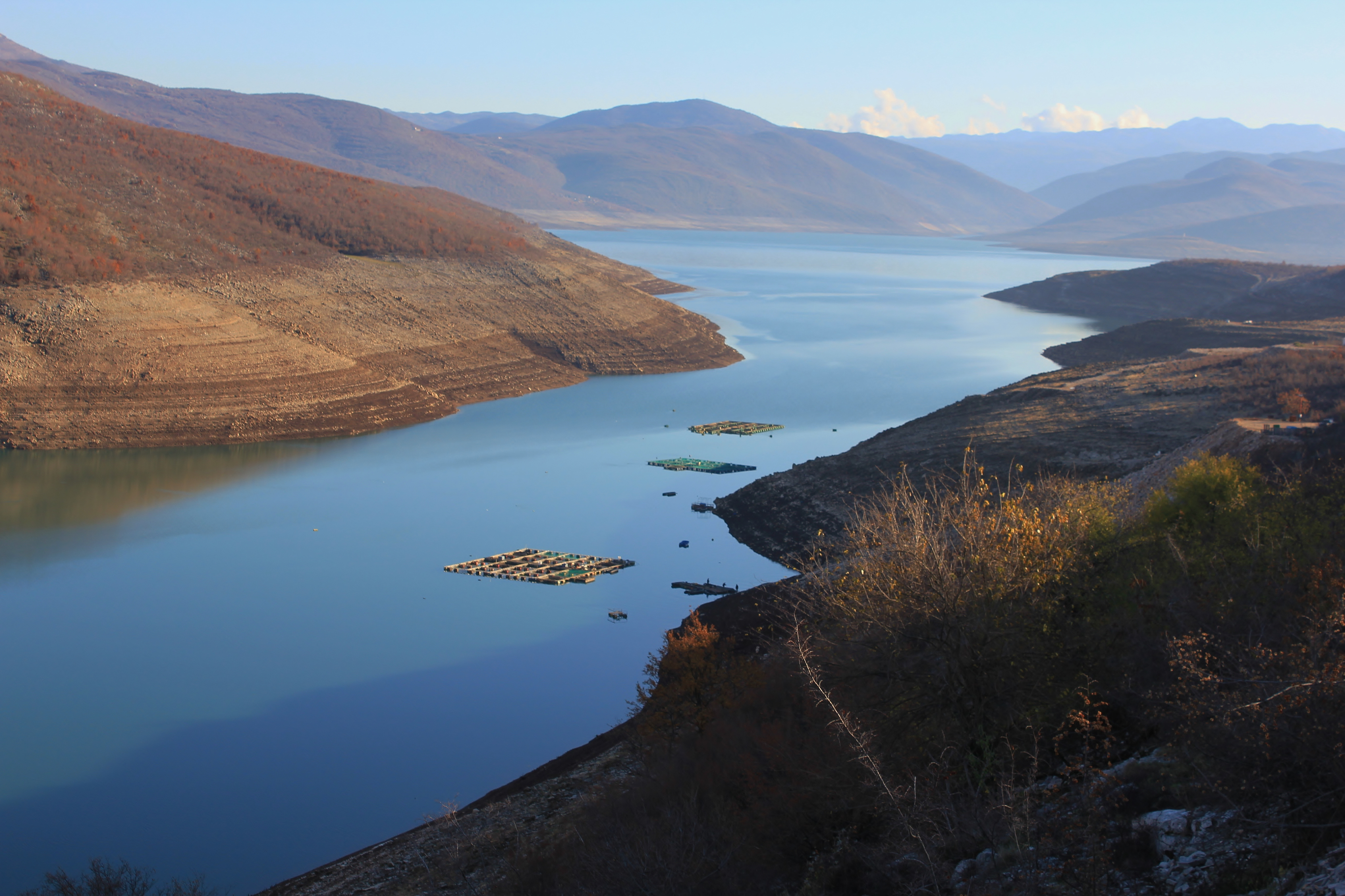 Lake in Bosnia and Herzegovina